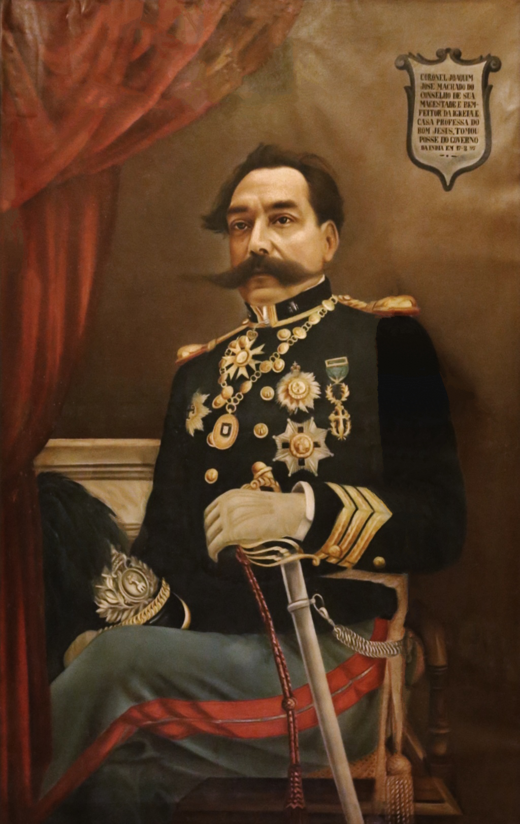 Joaquim José Machado (1847-1925), Governor of Portuguese India